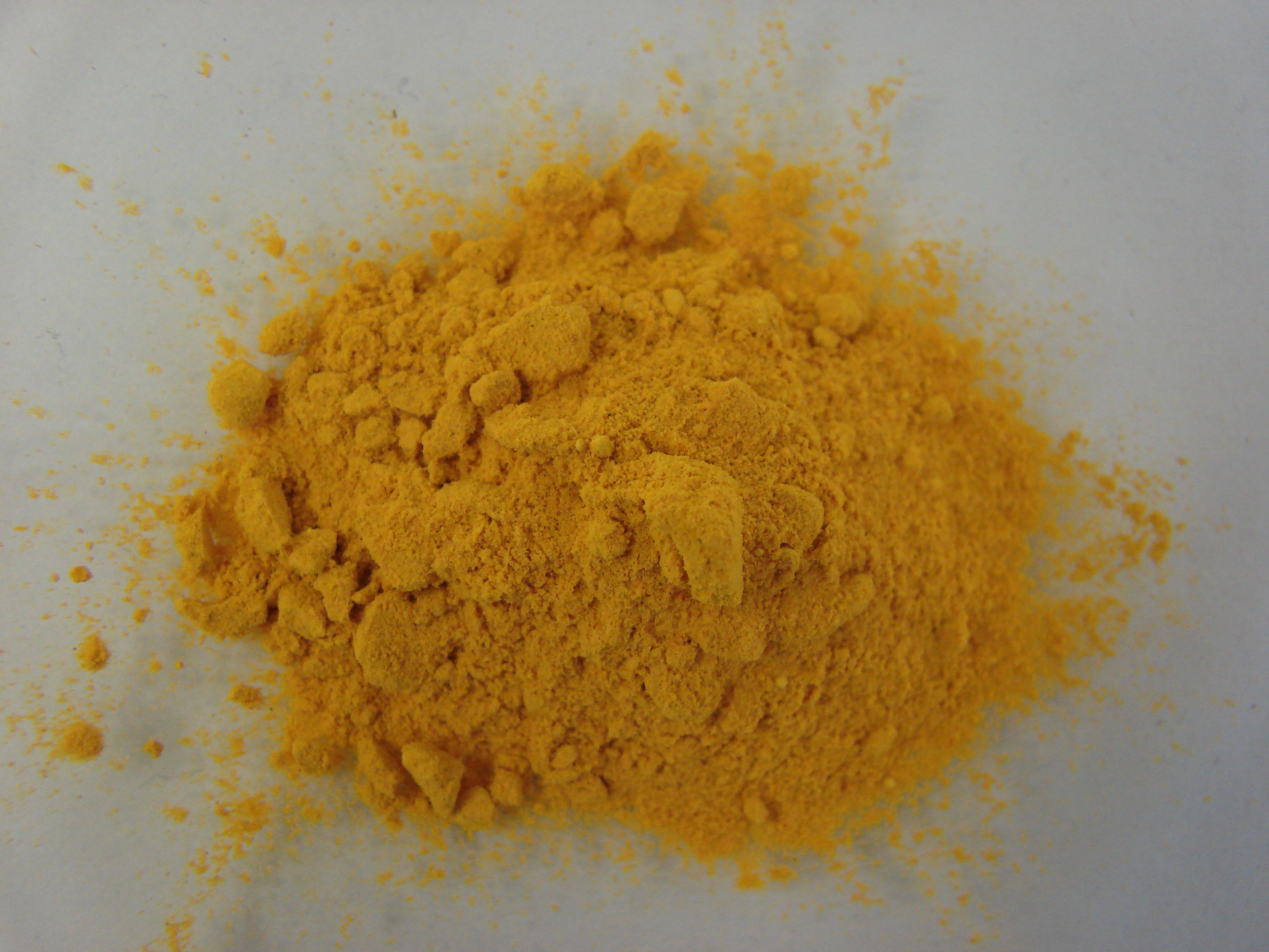 Gummi gutti, Garcinia morella